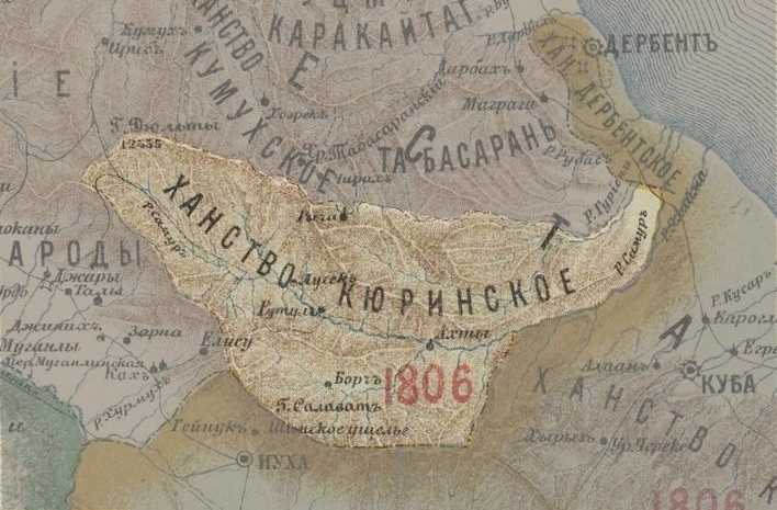 Kurinskoe khanstvo in the Map of Caucasus with the borders 1801-1813